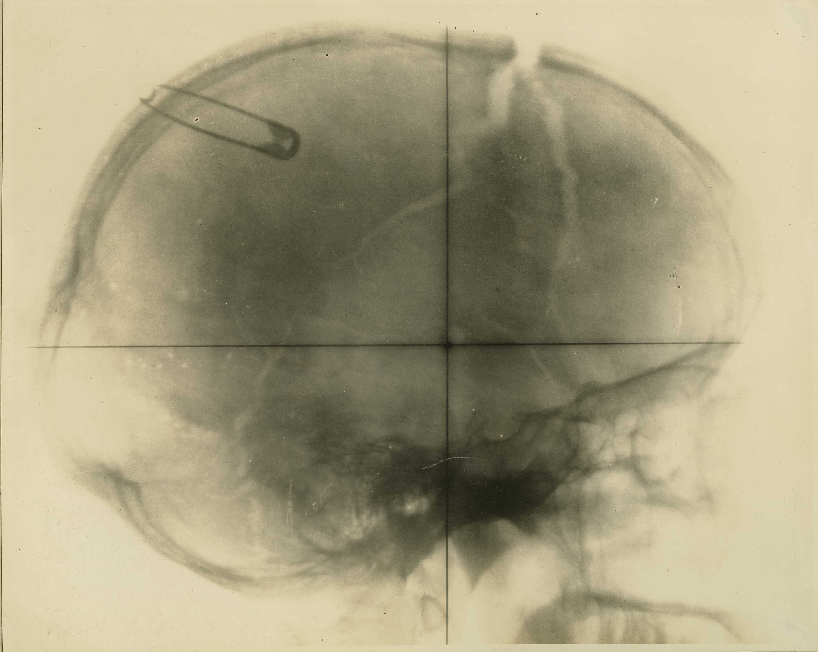 Group IX. Private W. Woods, number 10340, 6/Royal Irish Regiment. 08/12/1917; number 46 C.C.S. Multiple wounds; extensive bursting fracture of skull with diffuse cerebral contusion, probably due to burial. Unconscious; sub-temporal decompression; recovery. X-ray.